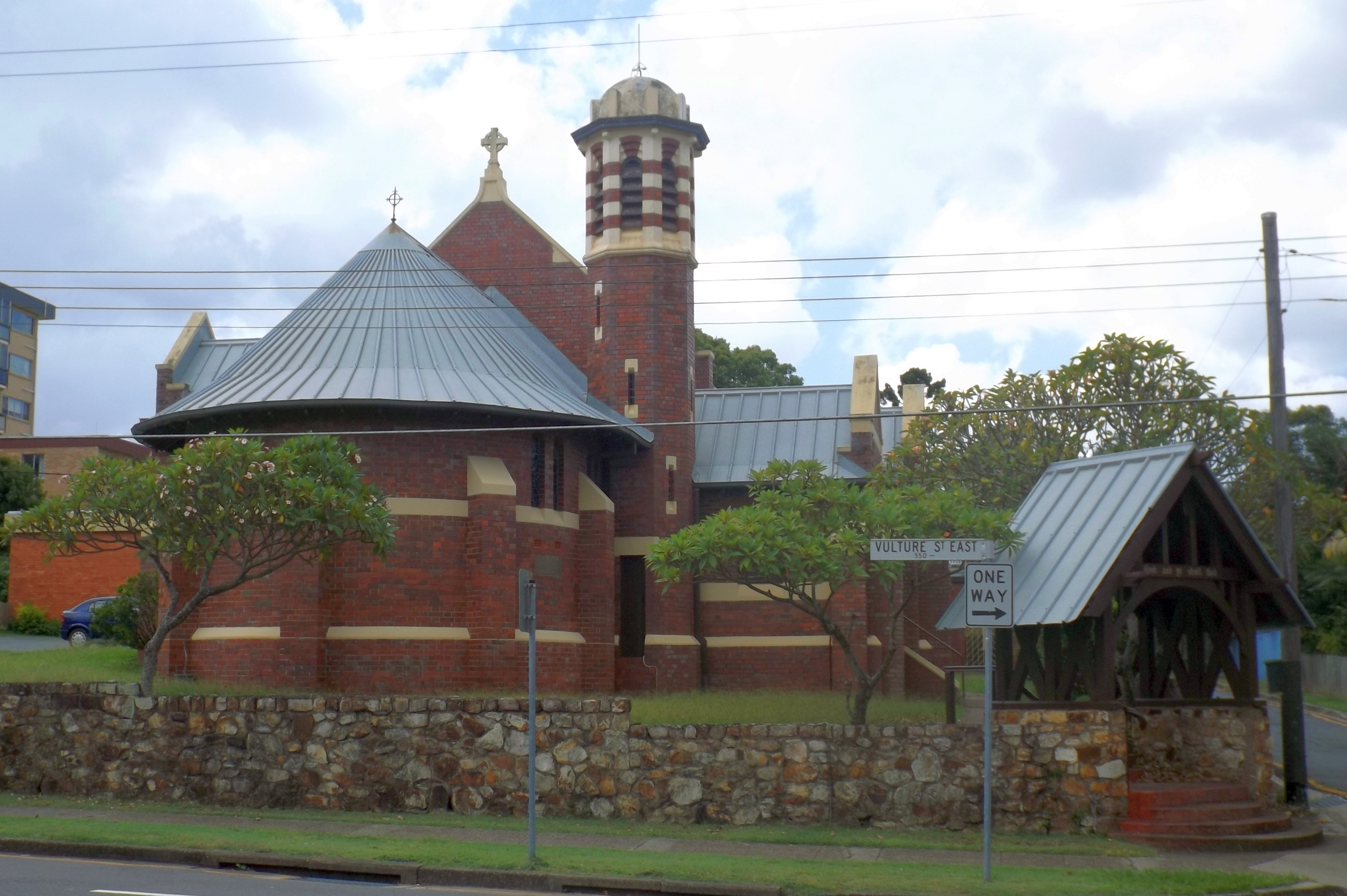 Photo of St Pauls Anglican Church, East Brisbane, Brisbane, Queensland, Australia.